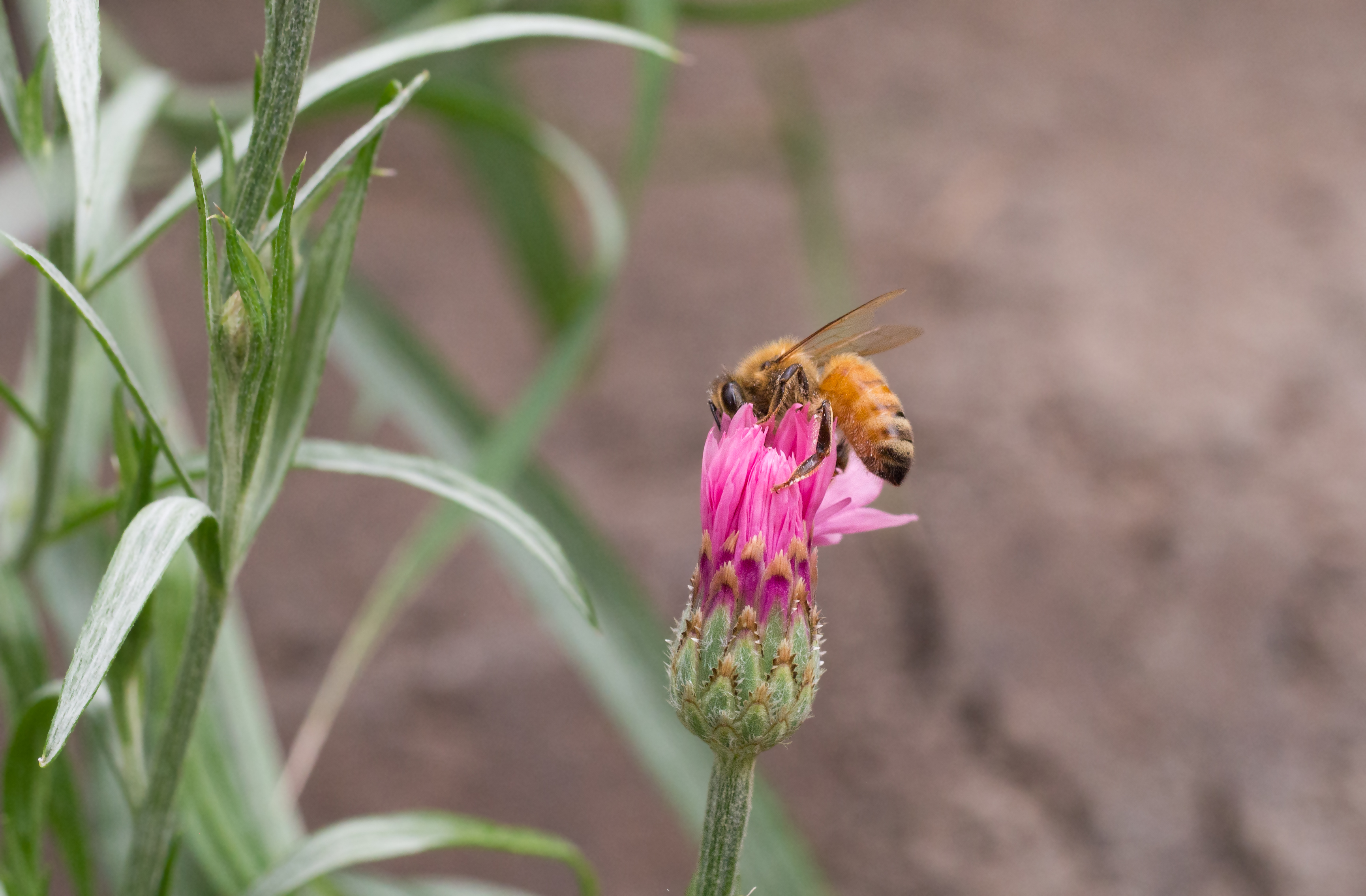 Honey bee (Apis mellifera) on cornflower (Centaurea cyanus) in Aspen, CO.